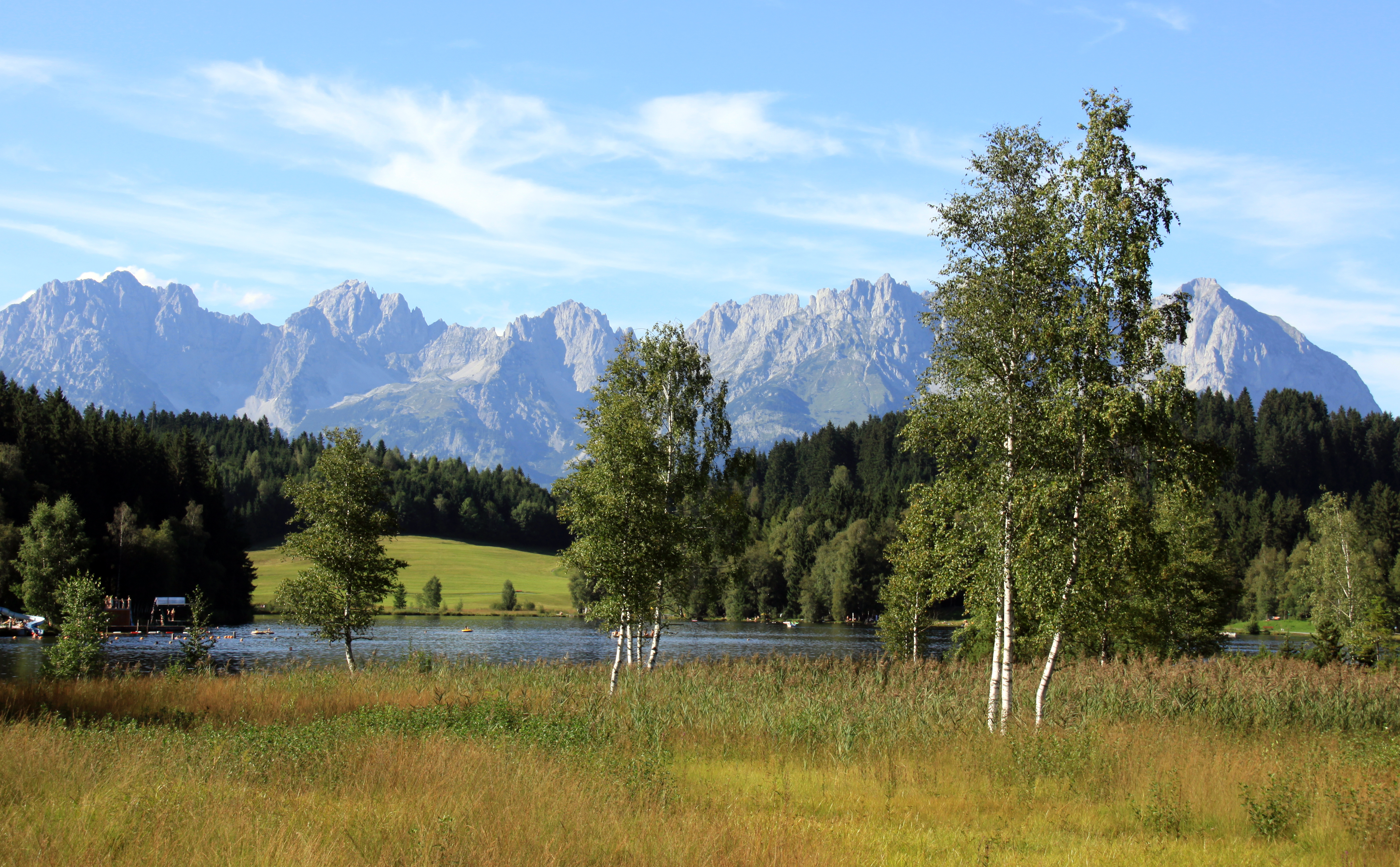 The lake Schwarzsee in Kitzbühel (where each year the swim competition of the World Championship Series triathlon is held) with the mountain range Wilder Kaiser.